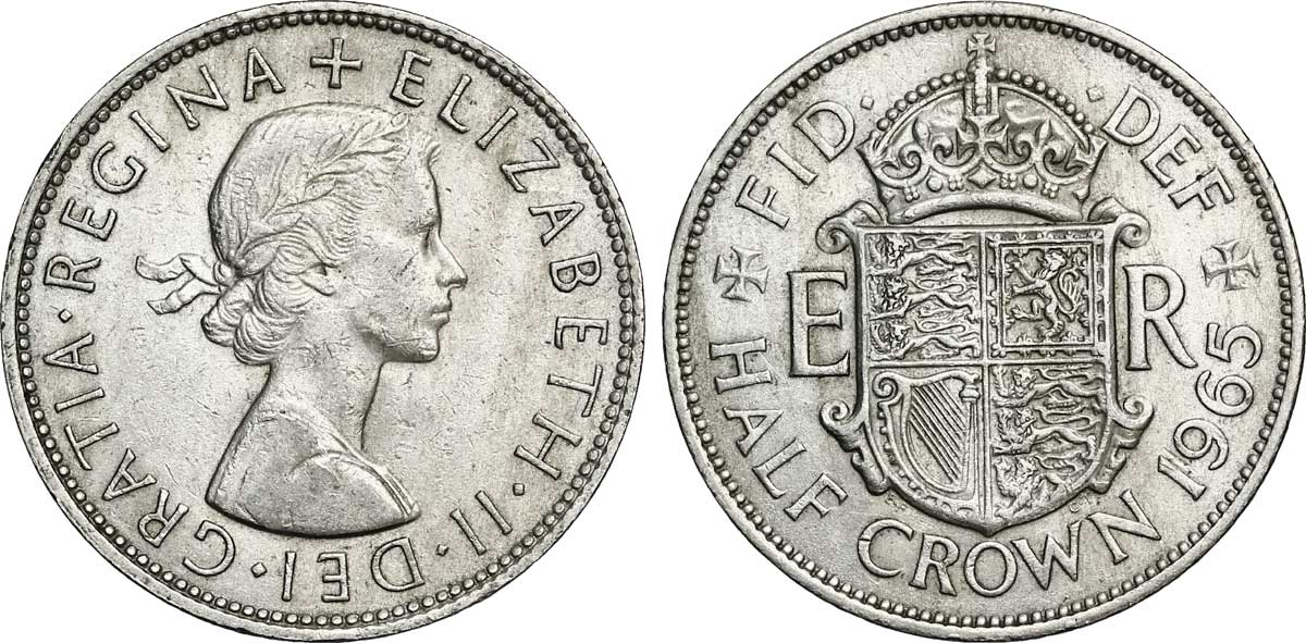 Un demi Crown à l'effigie de la reine Élisabeth II, 1965